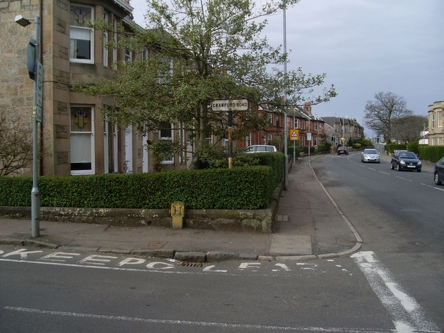 Old road sign by Crawfurd Avenue. The road signposted is now called Blairbeth Road.